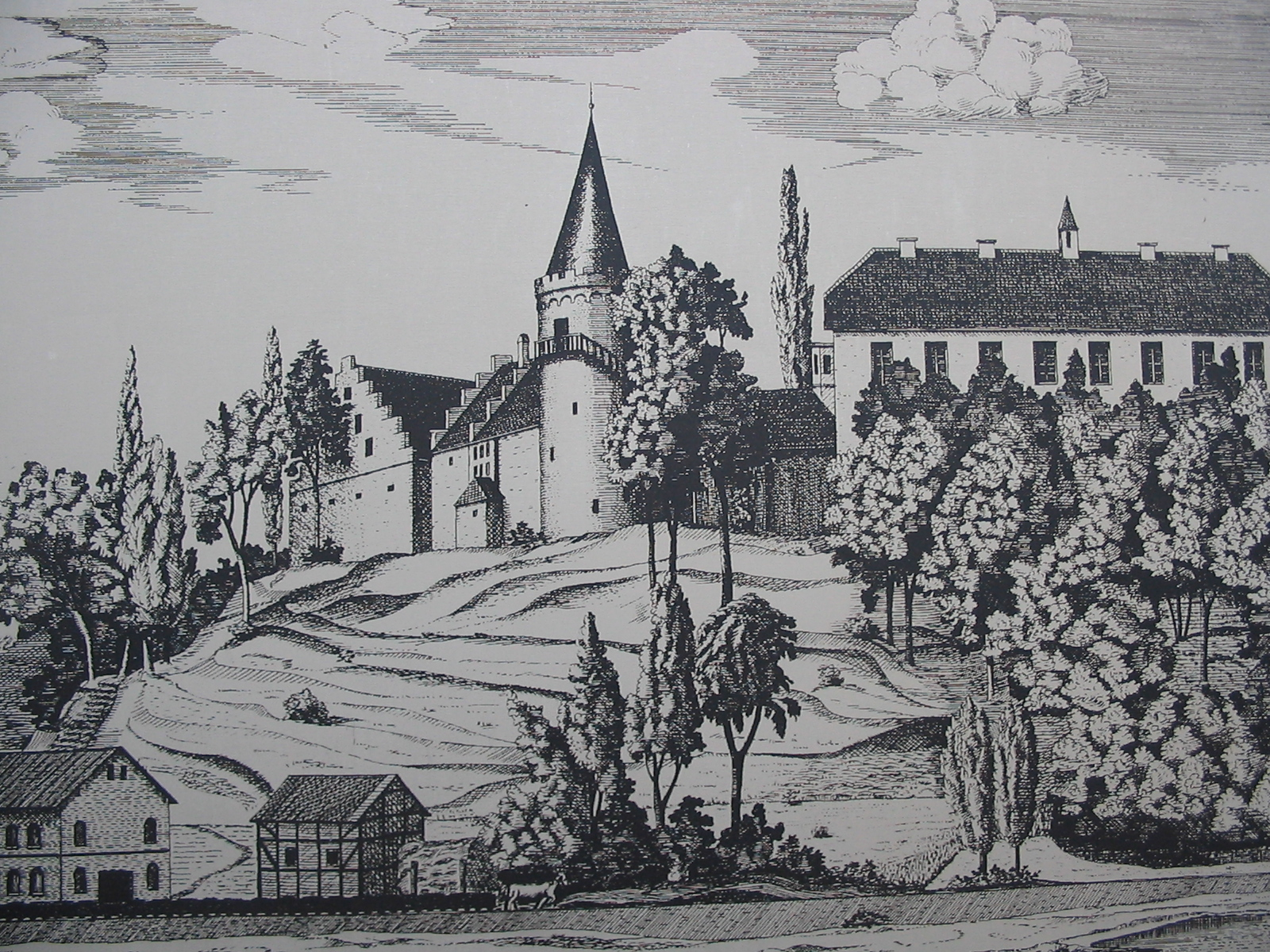 Estate Steinhausen with Zeche Theresia ca. 1860, drawing by F.-J. Holtermann